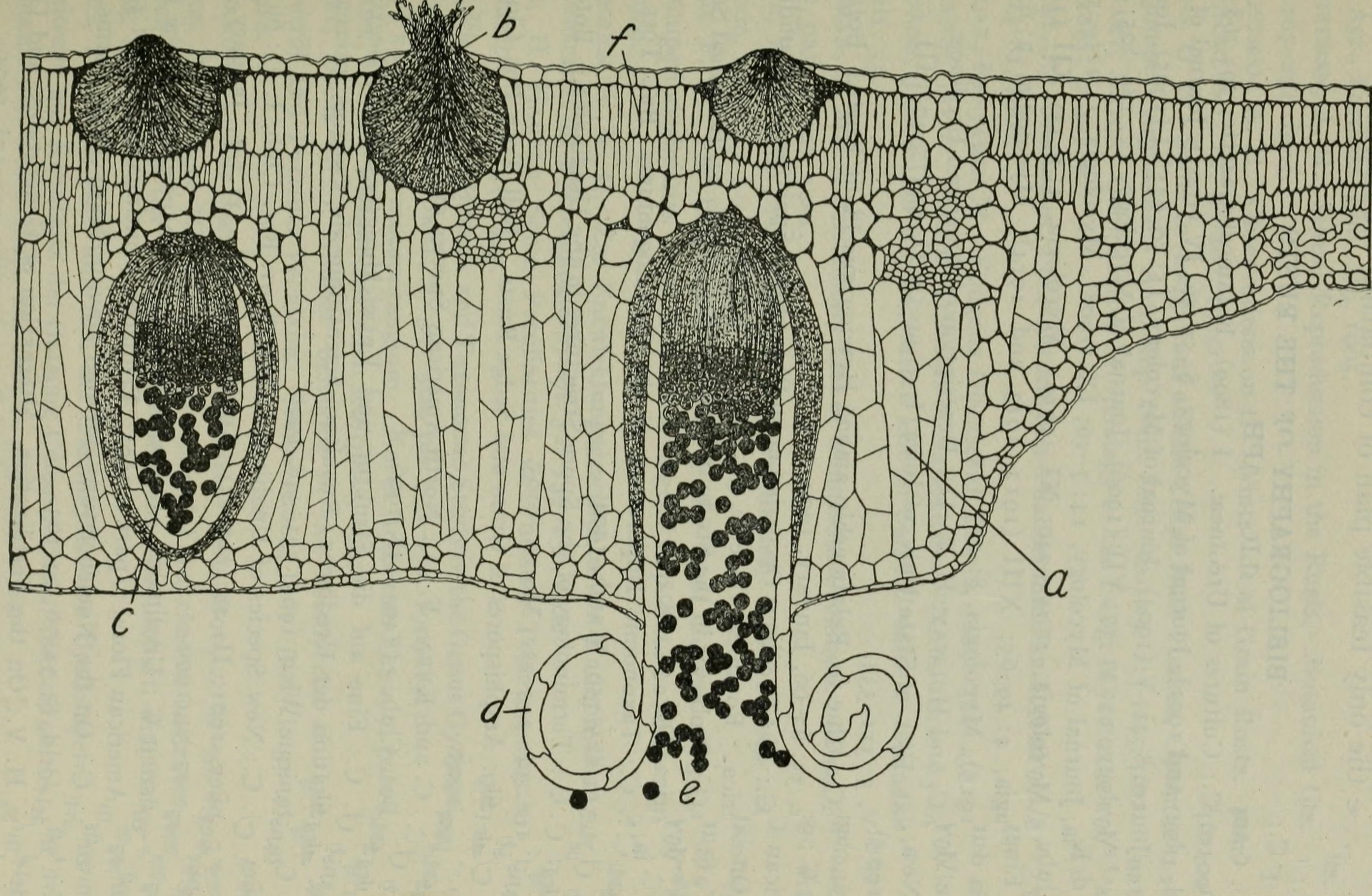 Title: A text-book of mycology and plant pathology Year: 1917 (1910s) Subjects: Plant diseases Fungi Publisher: Philadelphia : P. Blakiston's Son & Co. Contributing Library: University of British Columbia Library Digitizing Sponsor: University of British Columbia Library